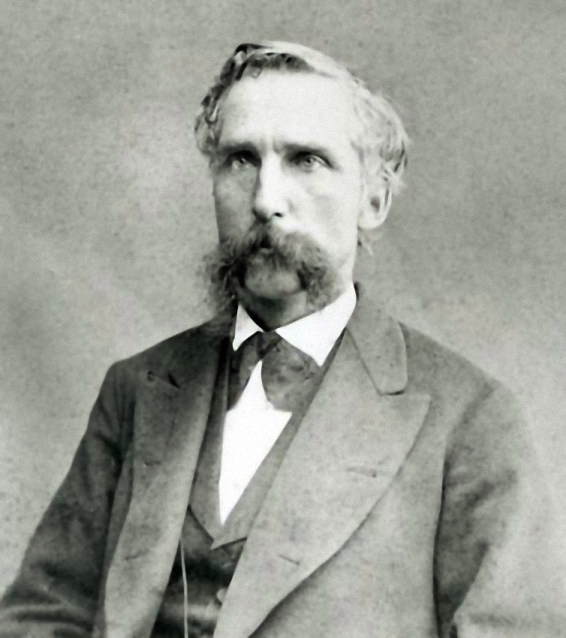 Joshua Lawrence Chamberlain as Governor.